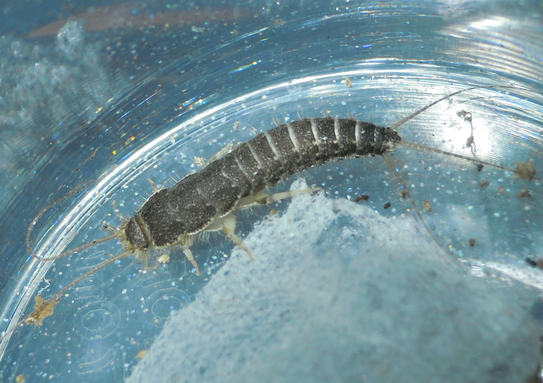 C. pinicola has a pigment spot on the hind legs.